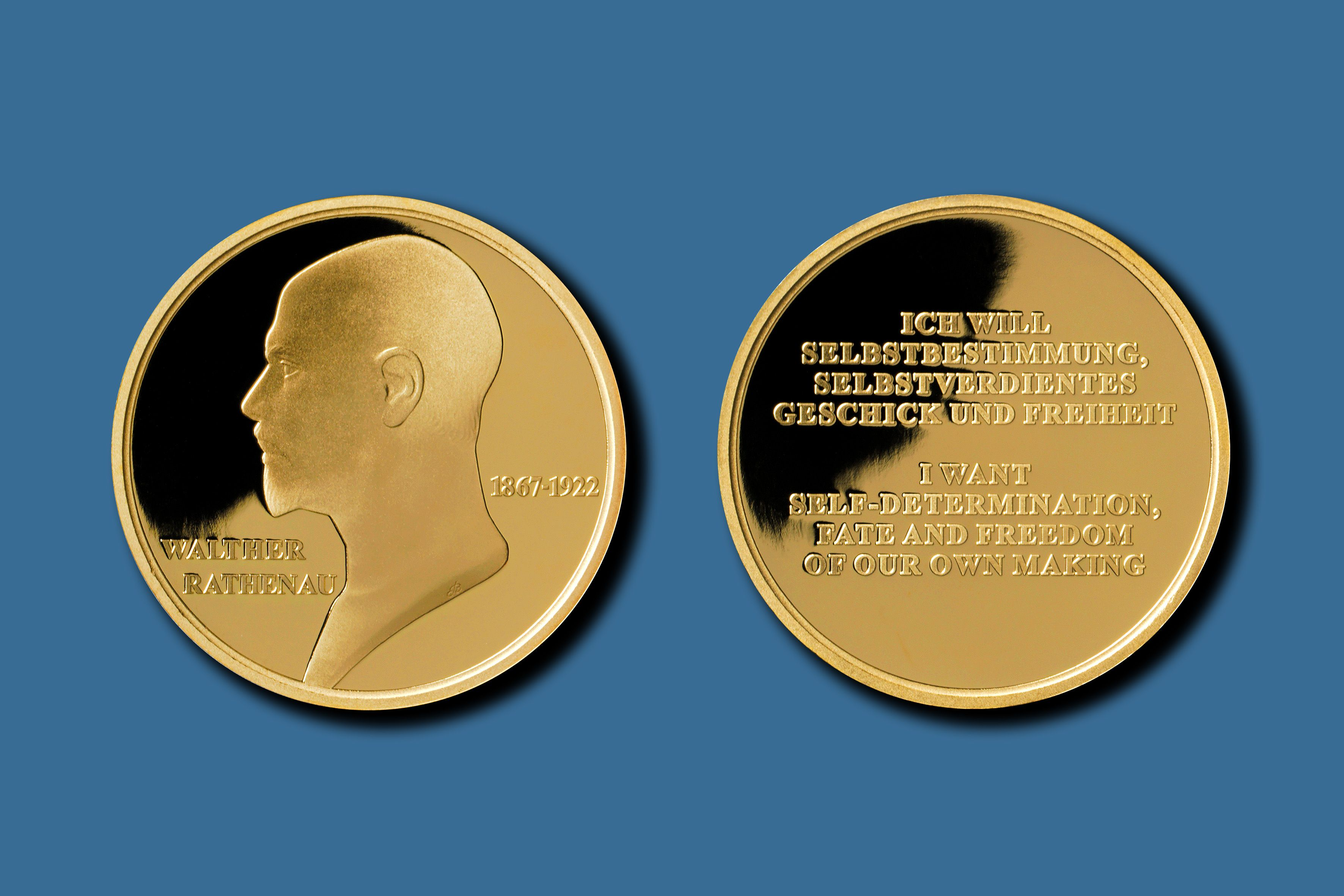 Walther-Rathenau-Preis des Walther Rathenau Instituts